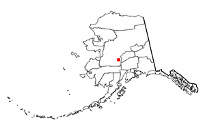 Adapted from Wikipedia's AK borough maps by Seth Ilys.